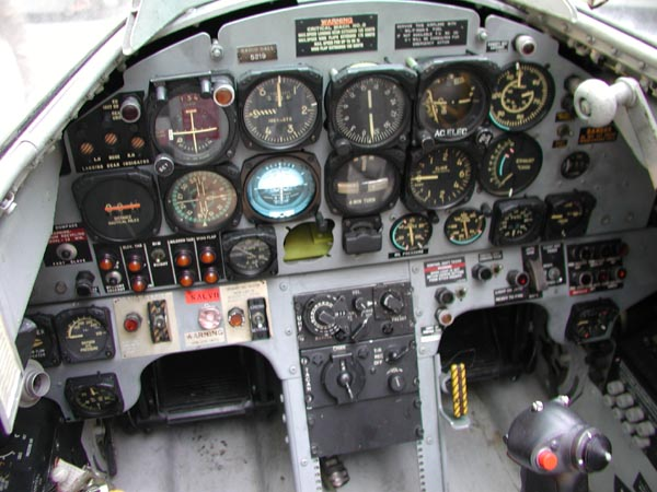 Lockheed T-33 Cockpit, displayed at Tokyu-Hands ANNEX